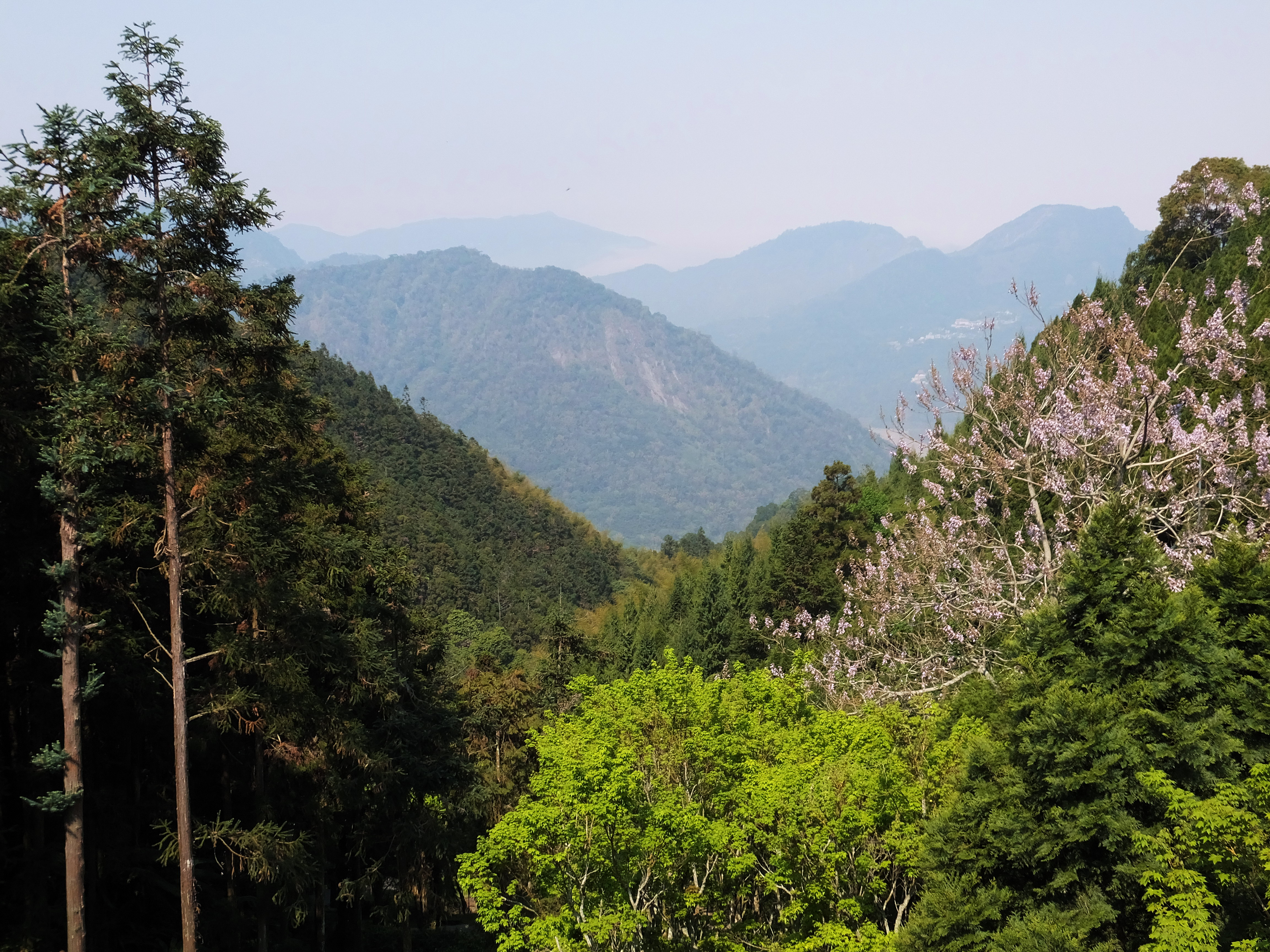 太和山區 Taihe mountainous area